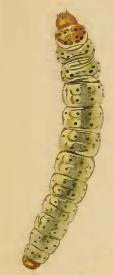 Stainton’s Natural History of the Tineina (1855–1873): Pseudotelphusa paripunctella